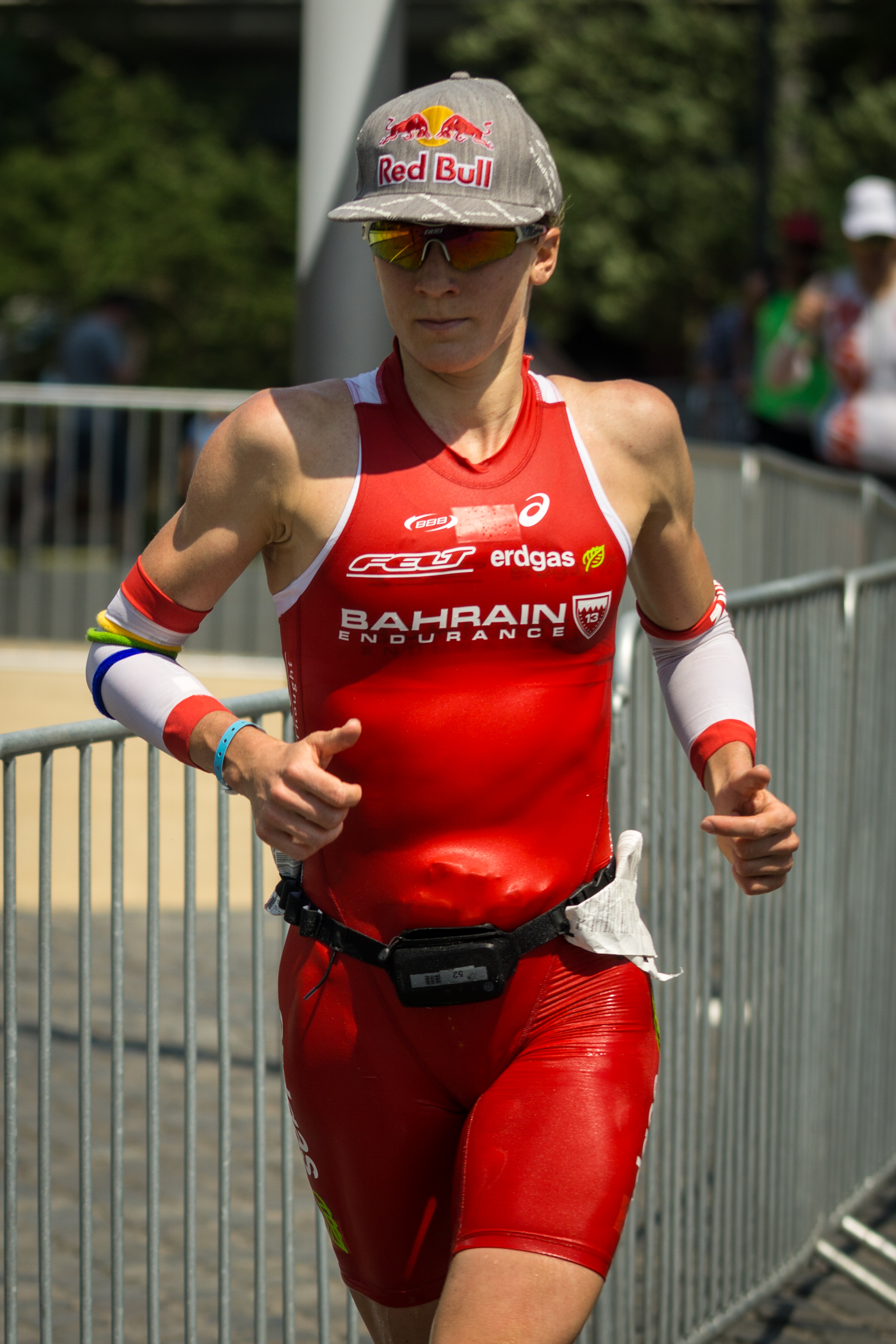 Daniela Ryf at the 2015 Ironman European Championship in Frankfurt am Main.